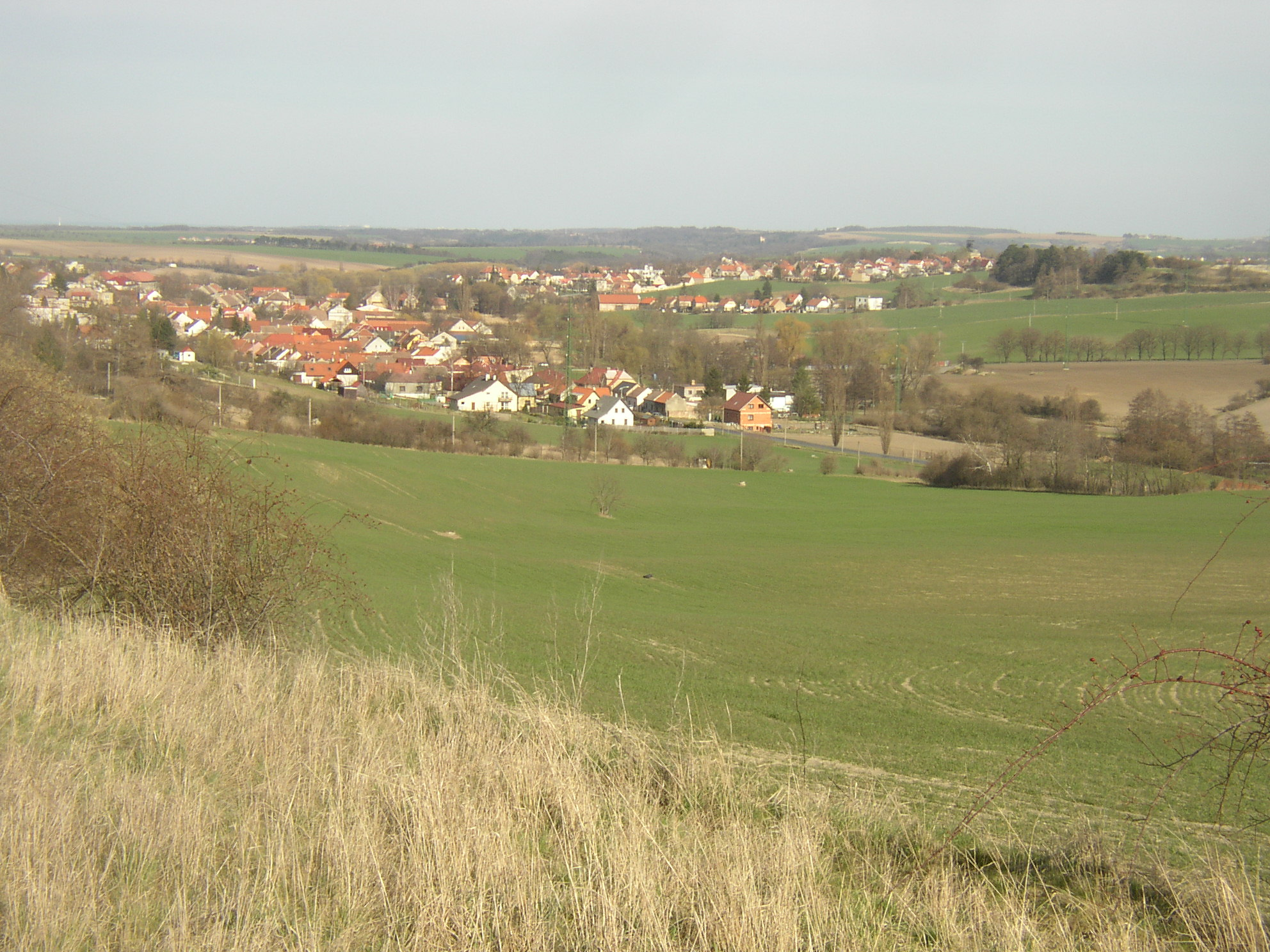 Village of Brandýsek, Kladno District, Czech Republic as seen from the west, from village of Theodor.